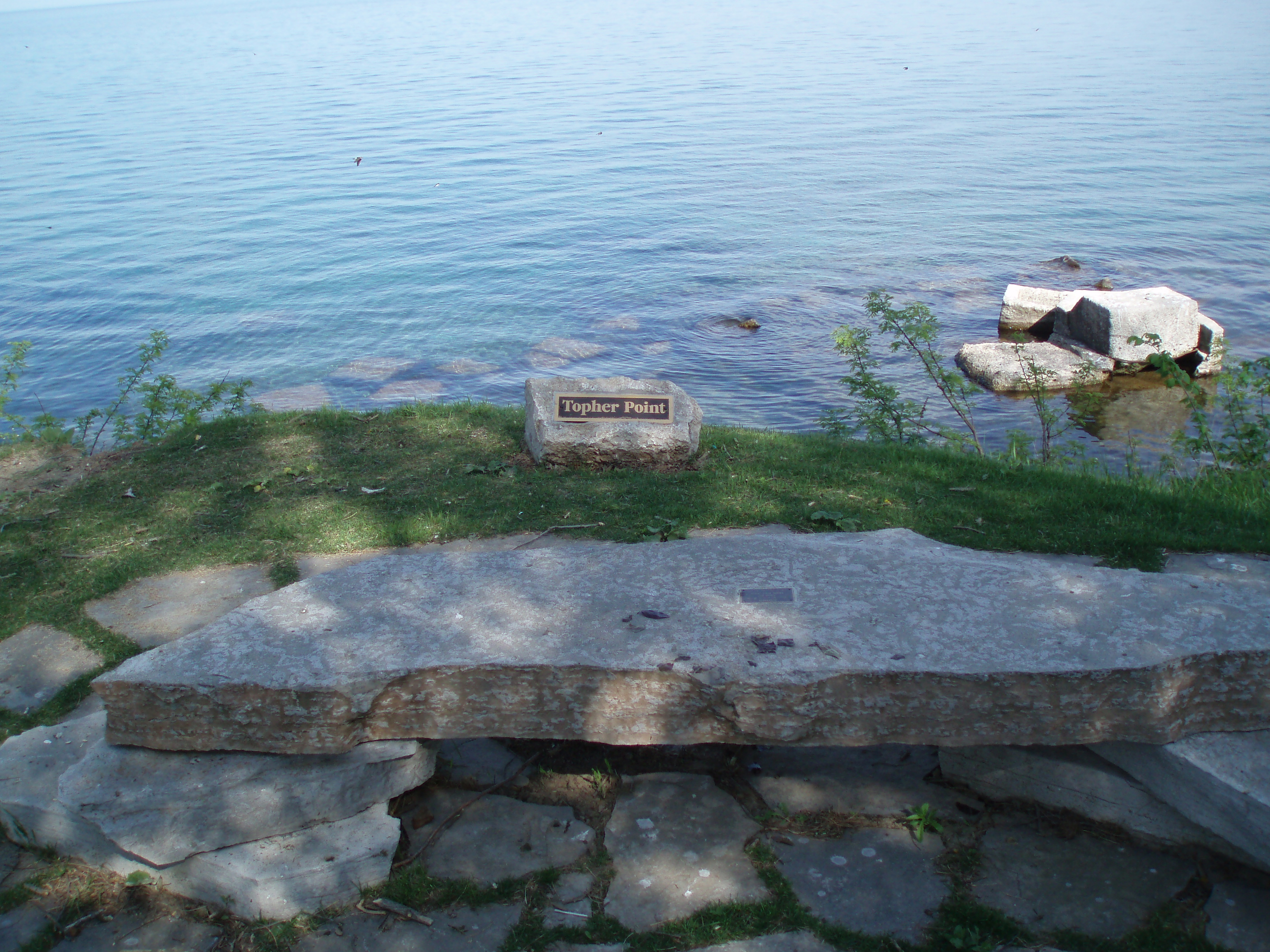 Appleby College